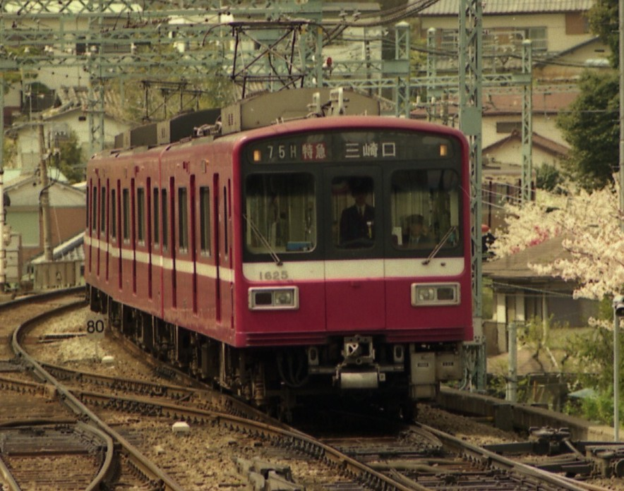 Keikyu 1625 at Horinouchi station